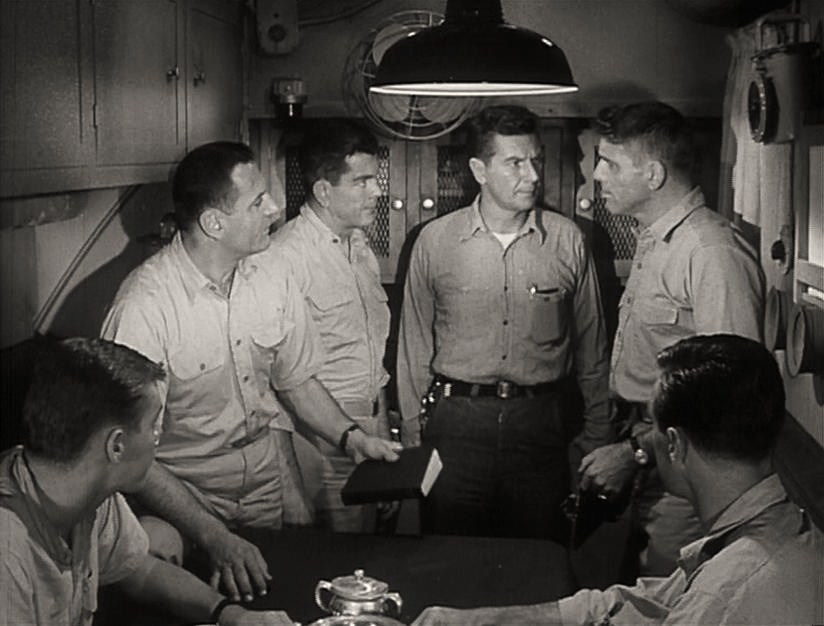 Scene of Run Silent, Run Deep, with Joe Maross (under the lamp) & Burt Lancaster (right) - trailer (cropped screenshot)